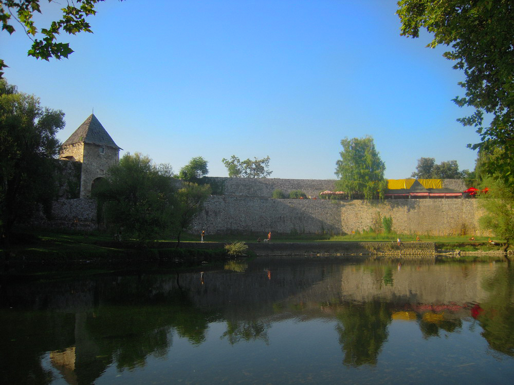 Vrbas in Banja Luka